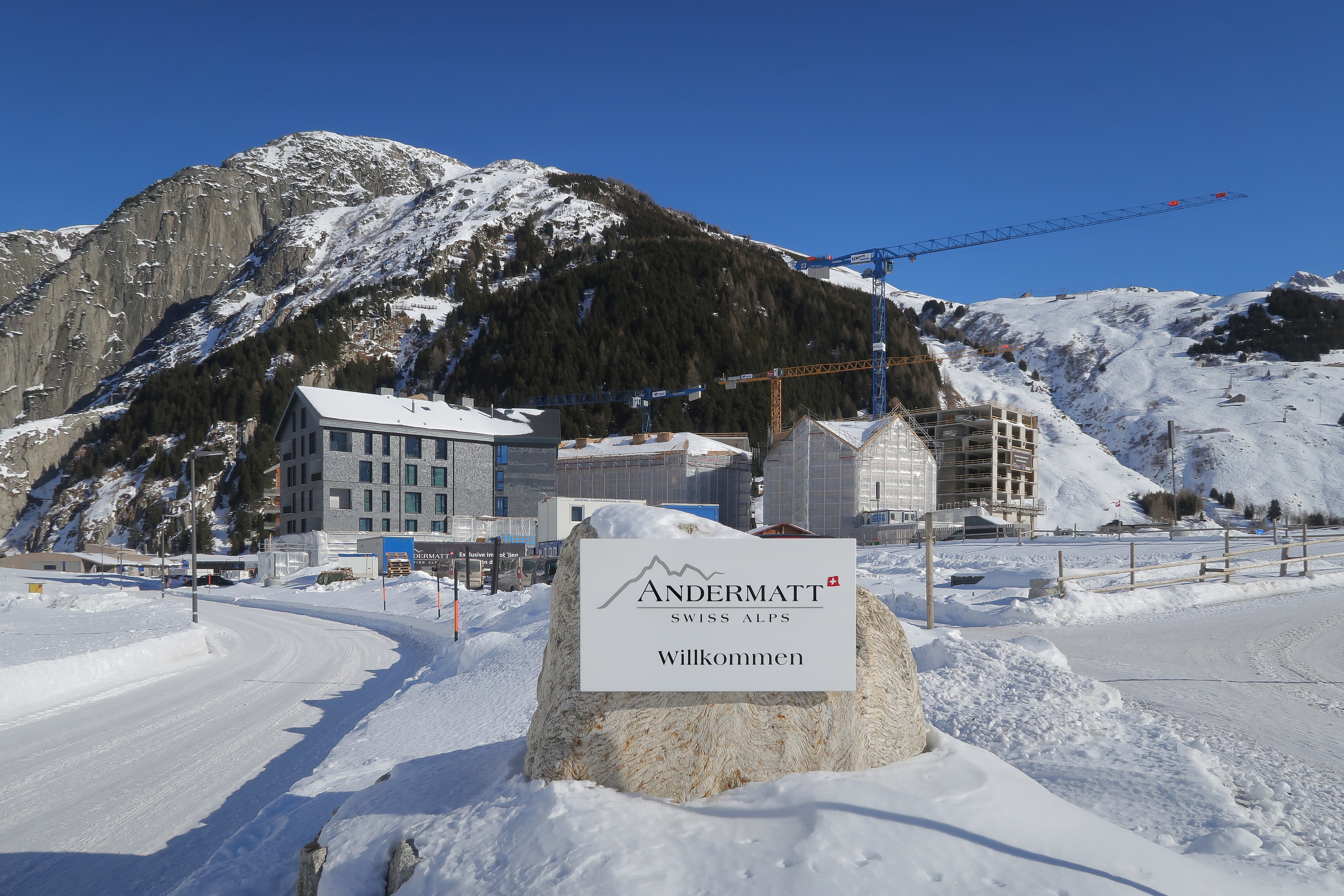 A new Andermatt comes into being. Apartment houses, holiday apartments, hotels and chalets. According to the motto: Let us craft a new Andermatt, the old one is no longer marketable. Separated from the old village by the station of the Matterhorn Gotthard Bahn, which is also renewed. The arrival and departure to this part is possible, without to see something of the original Andermatt. Switzerland, Jan 26, 2017.